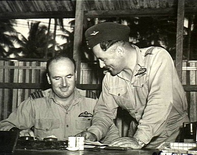 Port Moresby, Papua New Guinea. c. 1943. Group Captain Garing RAAF (standing, right) hands over information to his successor Group Captain McLachlan, seated at the office desk.